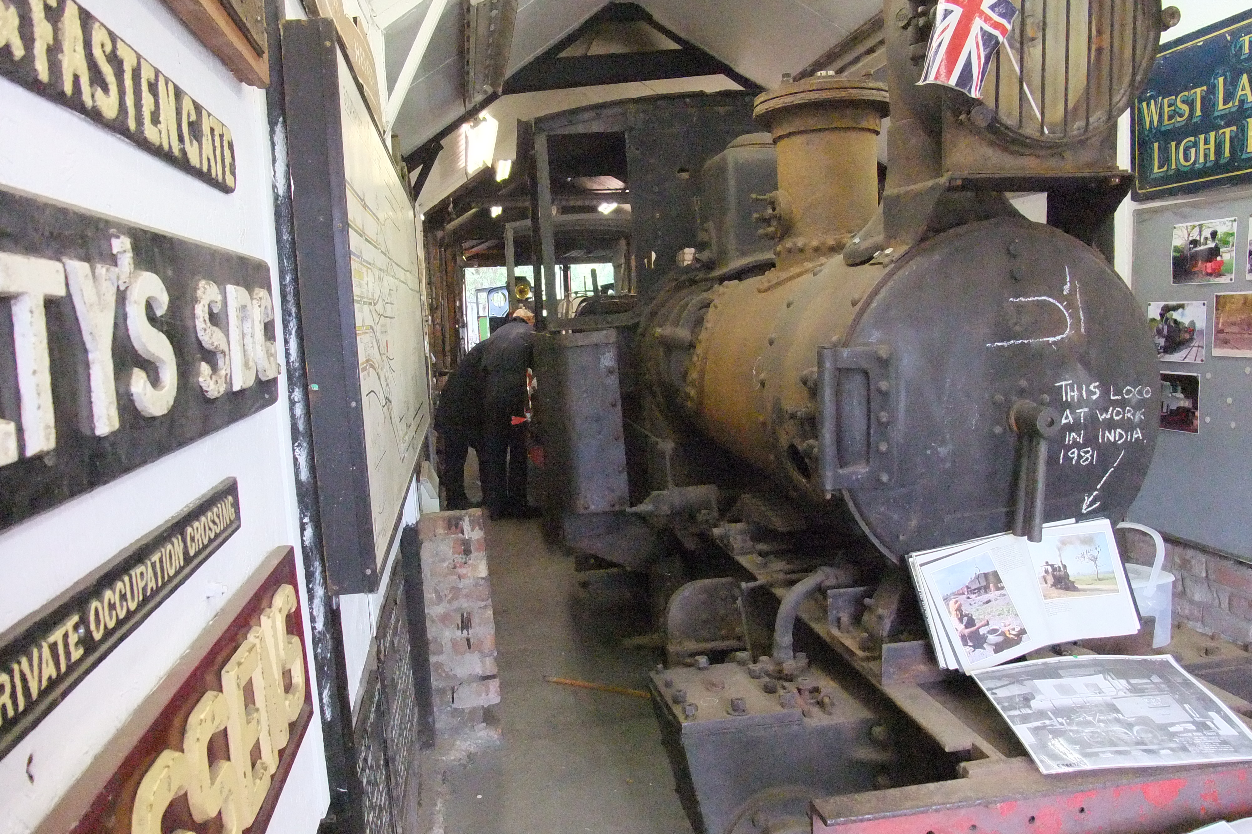 WLLR workshop interior and engine under restoration